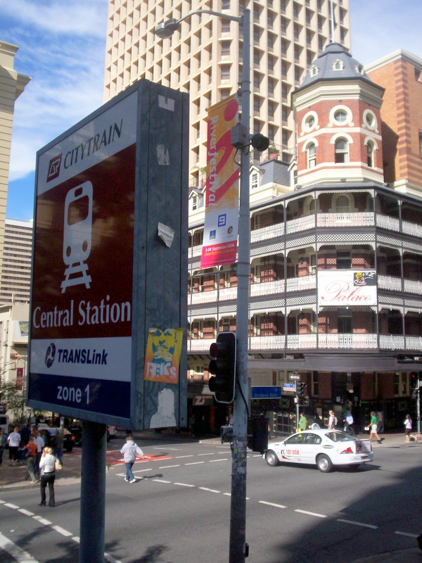 Palace Backpackers hotel, from Central Station